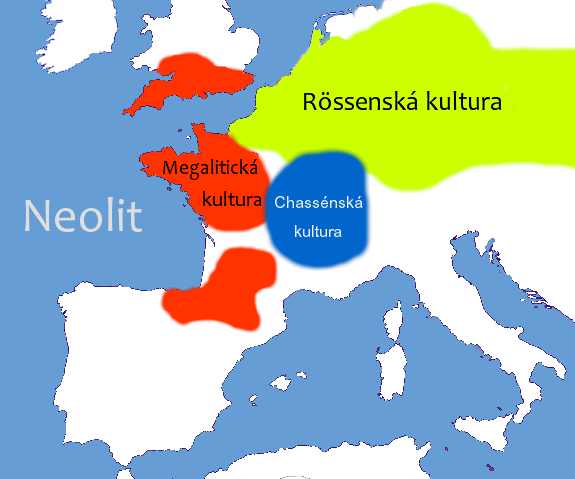 France in neolith